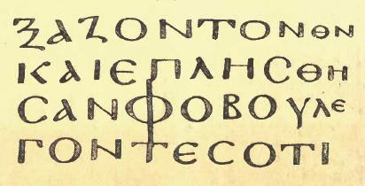 fragment with text of Gospel of Luke 5:26 in a facsimile edition